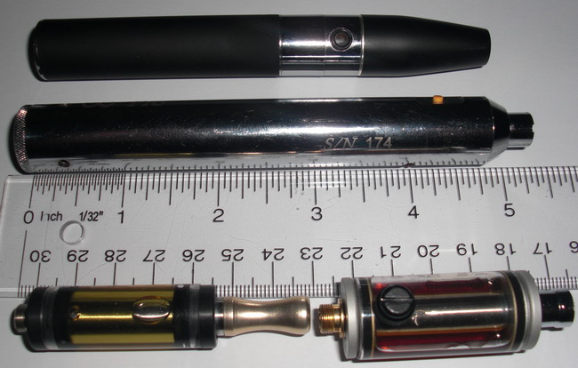 IP size